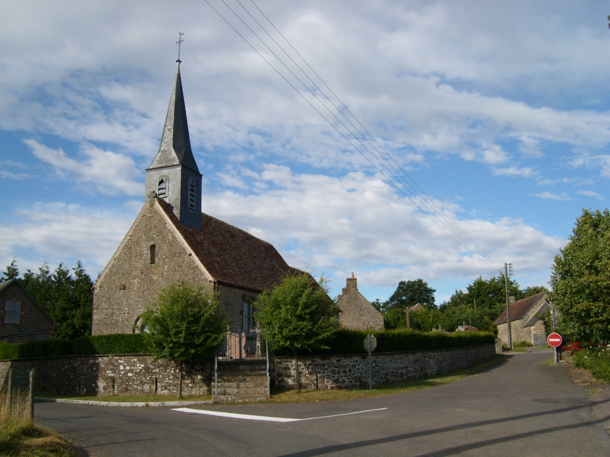 Chahains